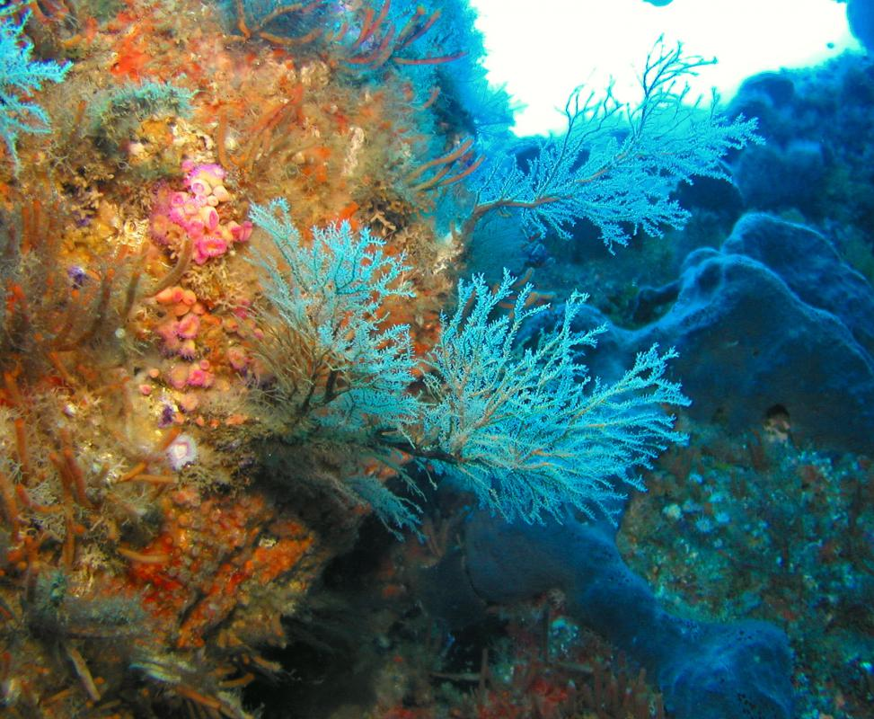 In situ photograph of hydroid (Hydrozoa) Solanderia sp. at Rakitu Island (Arid Island), Great Barrier Island. 29 m depth.